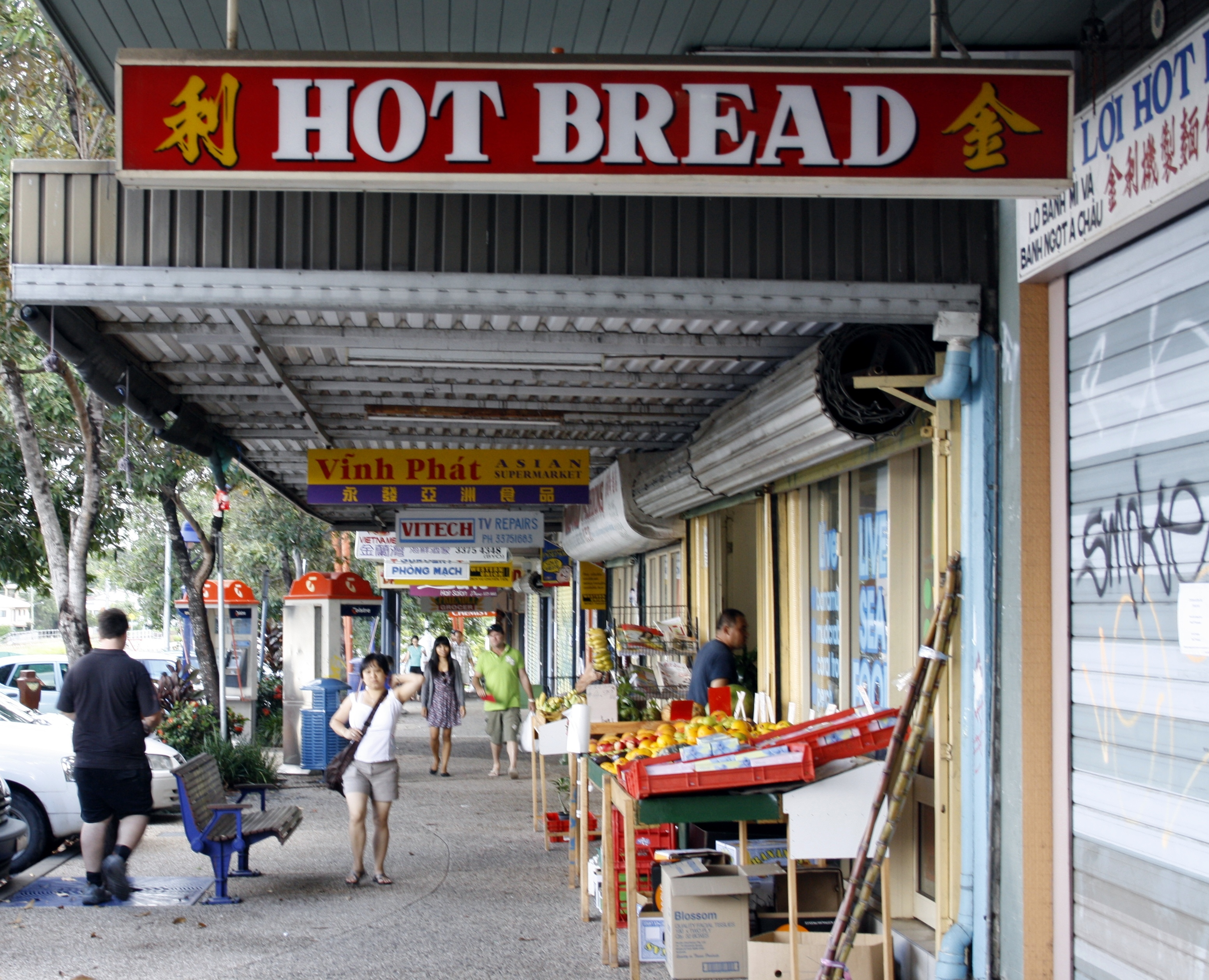 Strip mall (if that is what one calls it) in Darra, Brisbane, Australia. Note the Vietnamese influence.